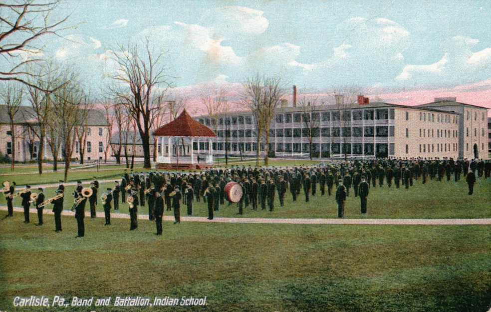 Carlisle Indian School Band and Battalion, Carlisle, PA. Other information No.